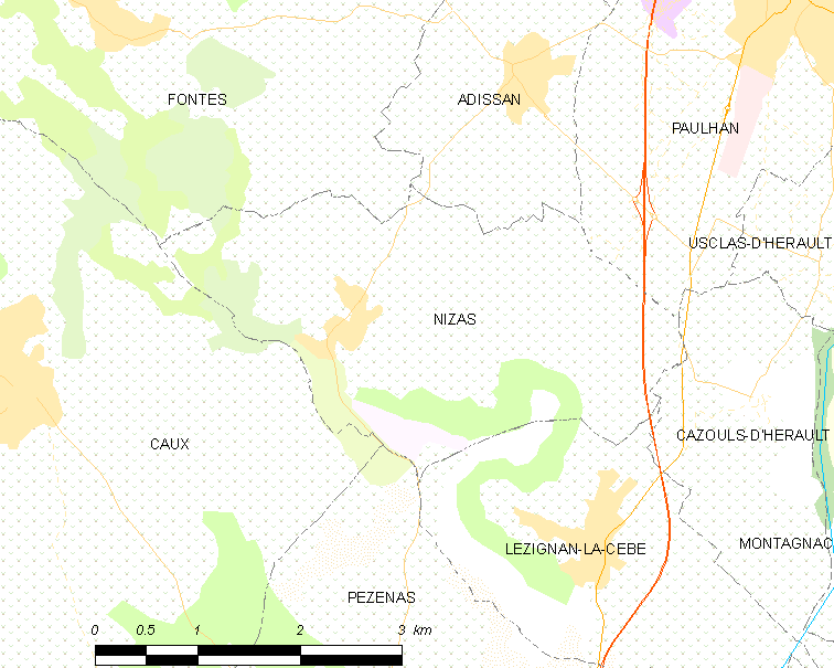 Map commune FR insee code 34184.png - Nizas